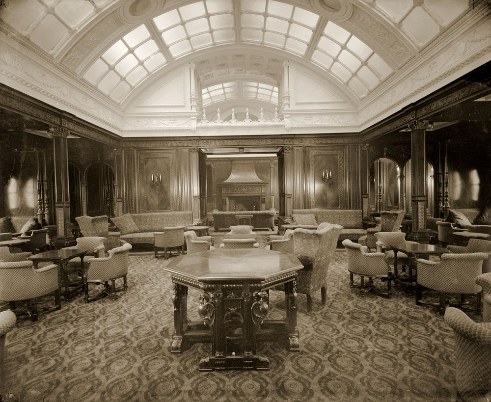 View of the 1st class smoking room looking forward on the 'Mauretania', c1907 (TWAM ref. ds.swh/5/3/4/2/B359). She was launched at the Wallsend yard of Swan Hunter & Wigham Richardson, 20 September 1906. The 'Mauretania' was one of the most famous ships ever built on Tyneside. (Copyright) We're happy for you to share this digital image within the spirit of The Commons. Please cite 'Tyne & Wear Archives & Museums' when reusing. Certain restrictions on high quality reproductions and commercial use of the original physical version apply though; if you're unsure please . To purchase a hi-res copy please quoting the title and reference number.